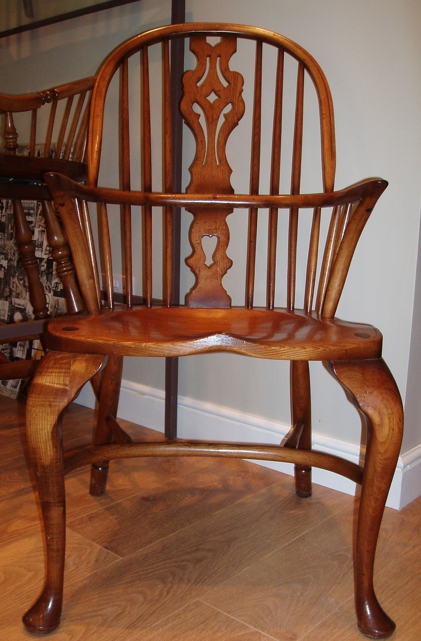 Windsor Georgian Double Bow chair with cabriole legs. Photograph taken by Amanda Slater on 2008-05-03 in Coventry.